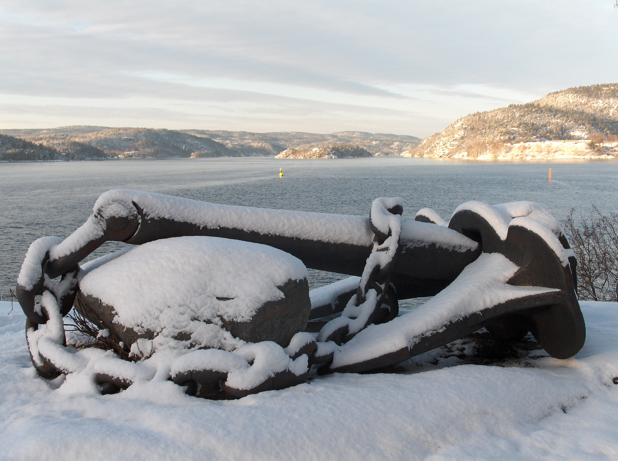 Blűcher's anchor in Drøbak.